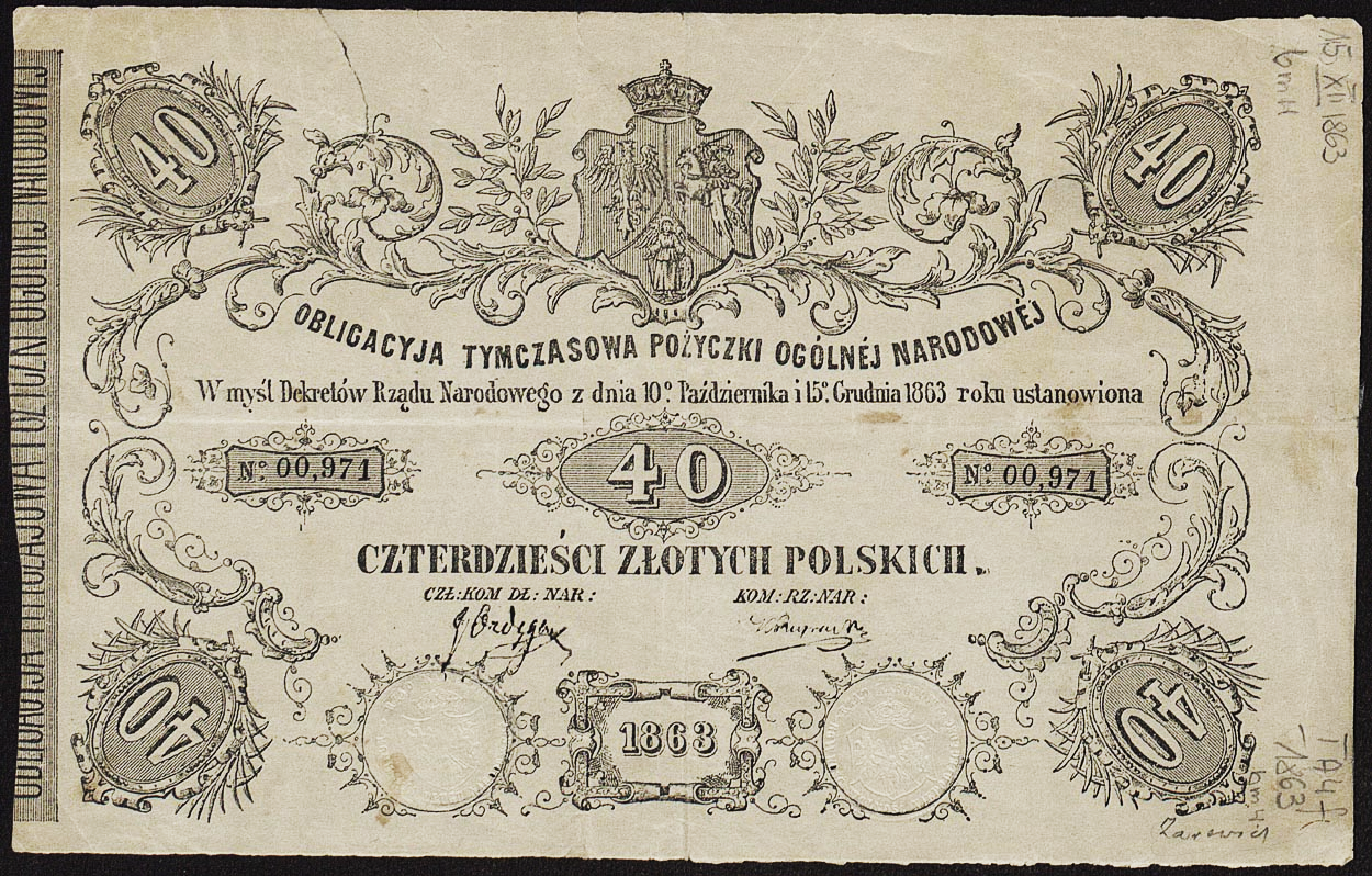 Bond of National Loan issued by Polish National Government 1863